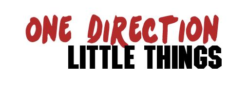 Logo new